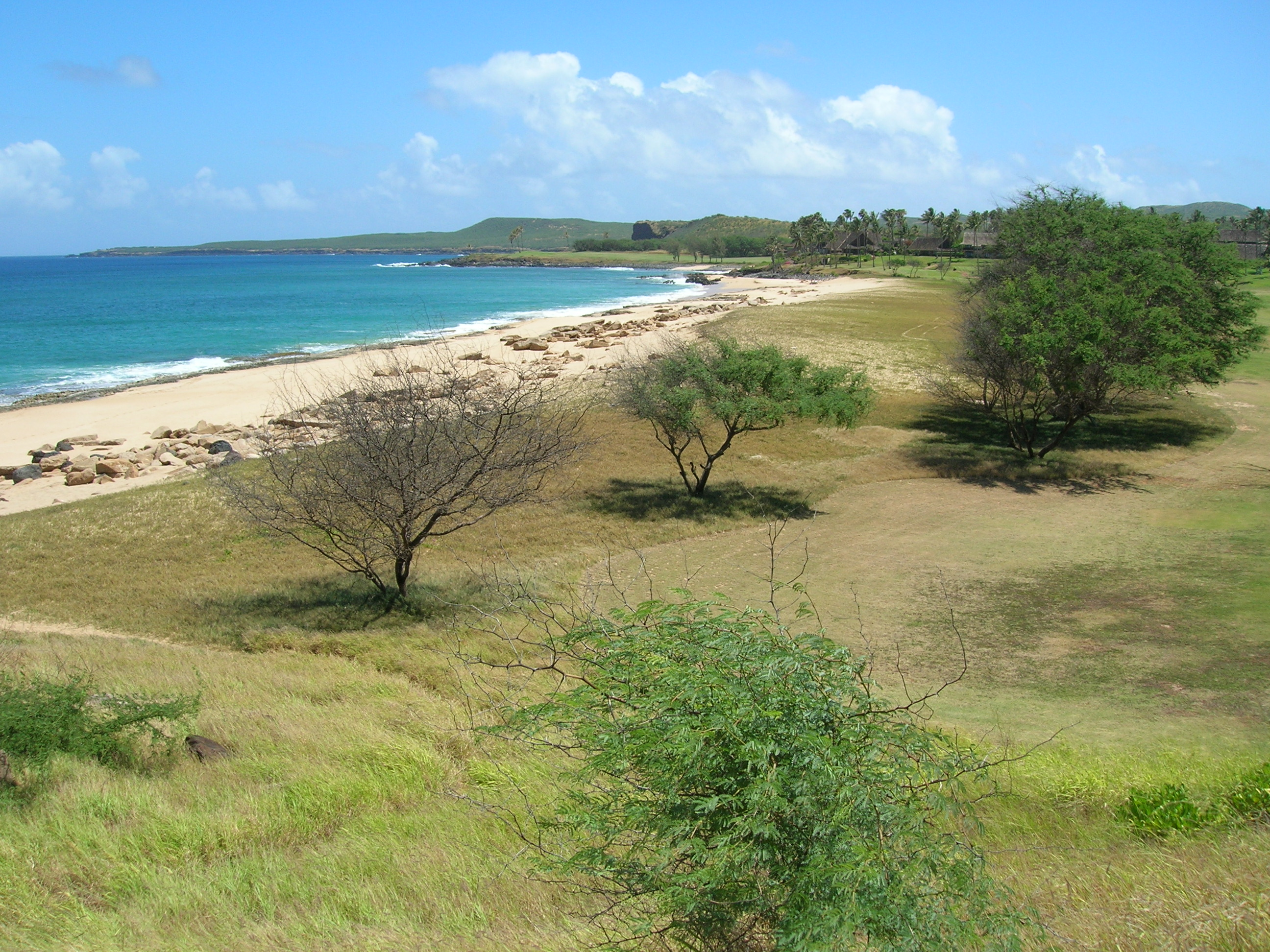 Prosopis pallida (habit). Location: Molokai, Kepuhi